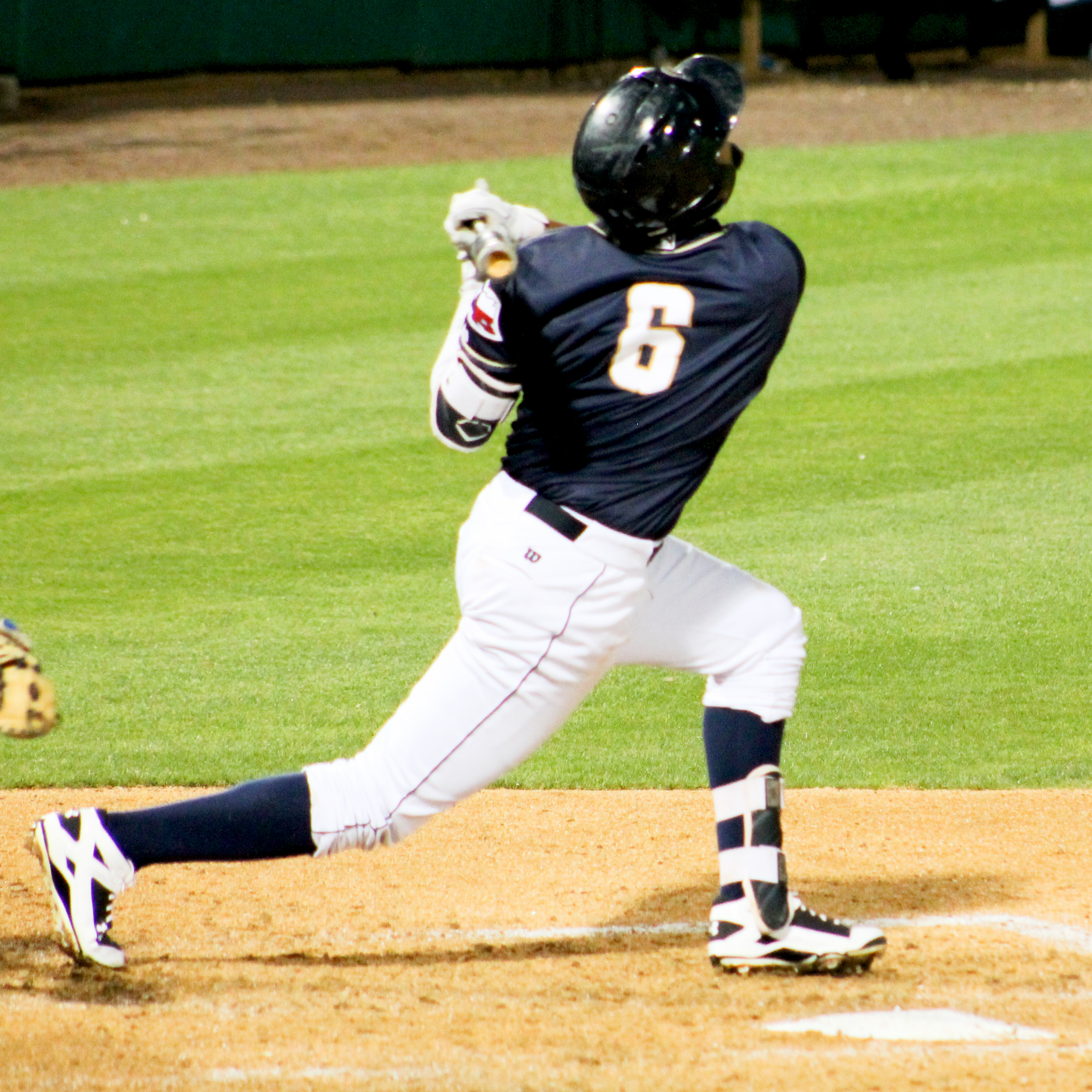 Professional baseball player José Rondón with the San Antonio Missions in May 2016